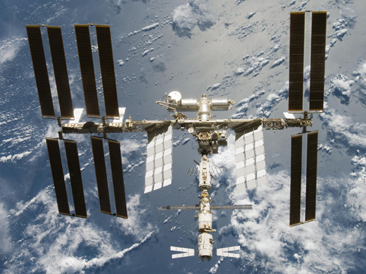 Backdropped by a blue and white part of Earth, the International Space Station is seen from Space Shuttle Discovery as the two spacecraft begin their relative separation. Earlier the STS-124 and Expedition 17 crews concluded almost nine days of cooperative work onboard the shuttle and station. Undocking of the two spacecraft occurred at 6:42 a.m. (CDT) on June 11, 2008.